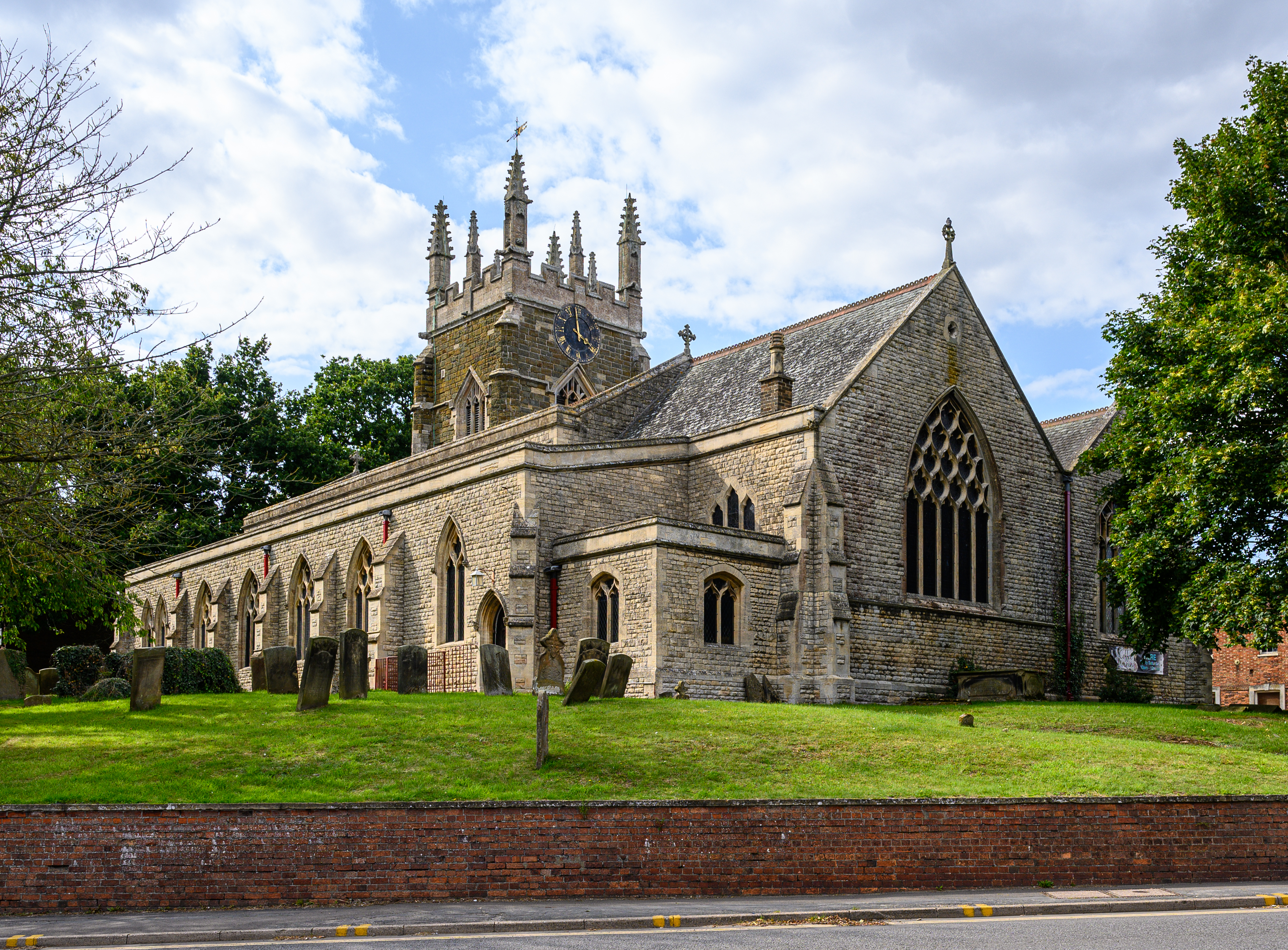 The Parish Church of Saint James, Spilsby, England